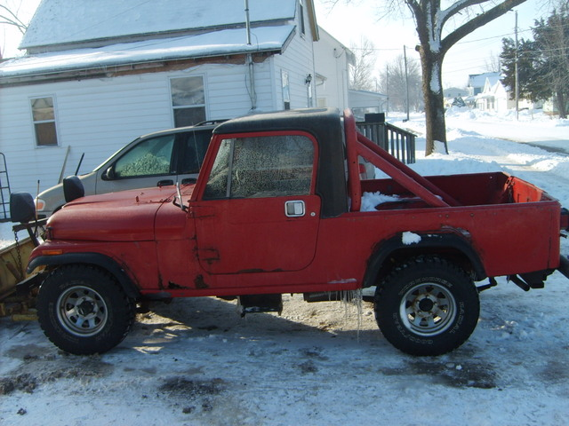 Red 1982 Jeep Scramber owned by Joshua Miller of Iowa City, Iowa. Photograph taken by himself.